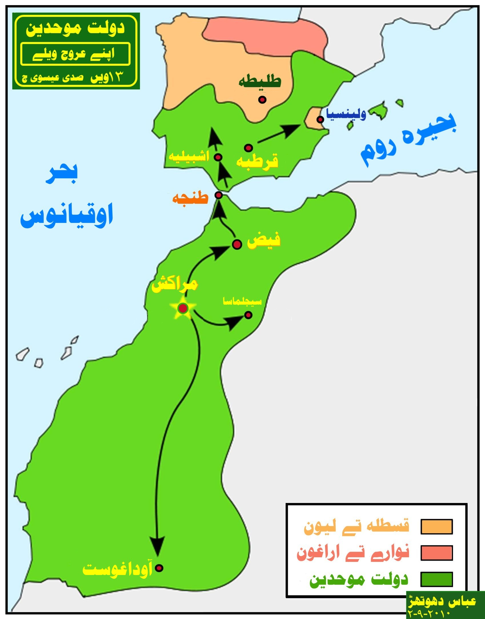 Almohad Empire Map in Punjabi.